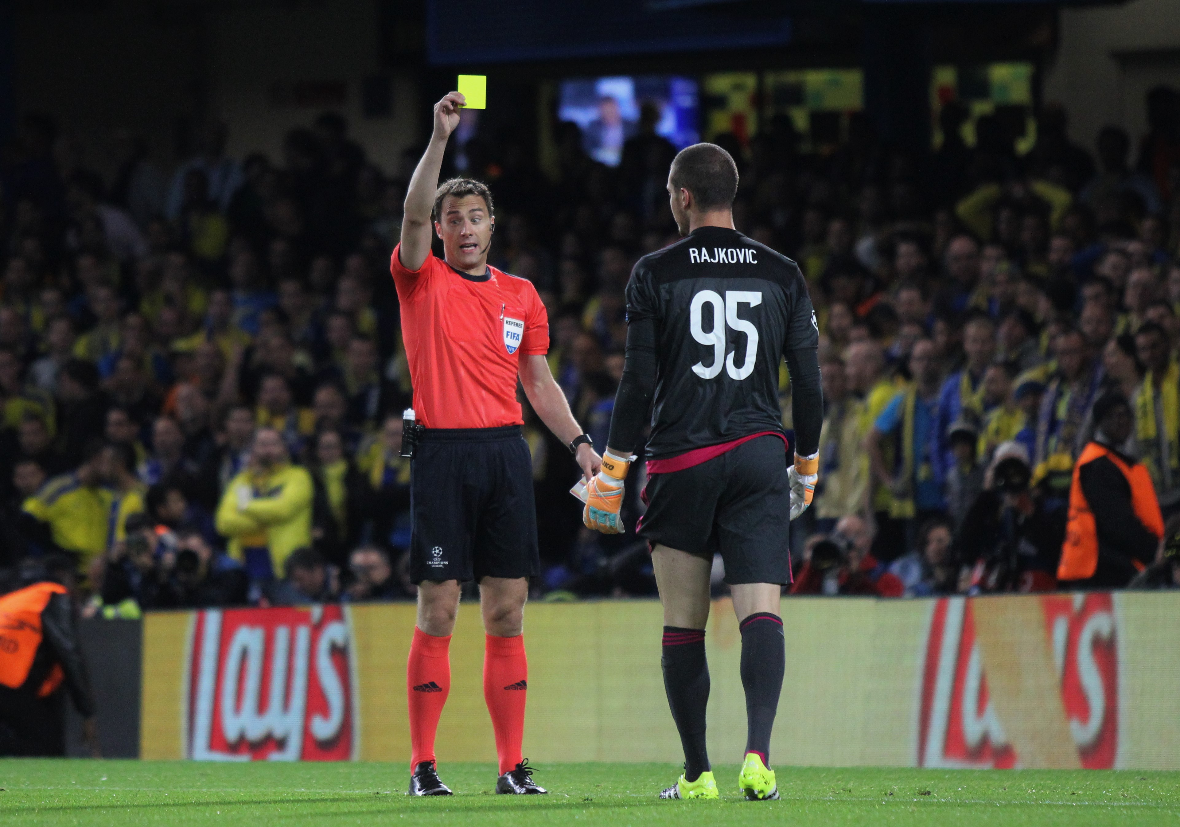 Maccabi Tel-Aviv goalkeeper Predrag Rajkovic is shown a yellow card during the Champions League game against Chelsea.